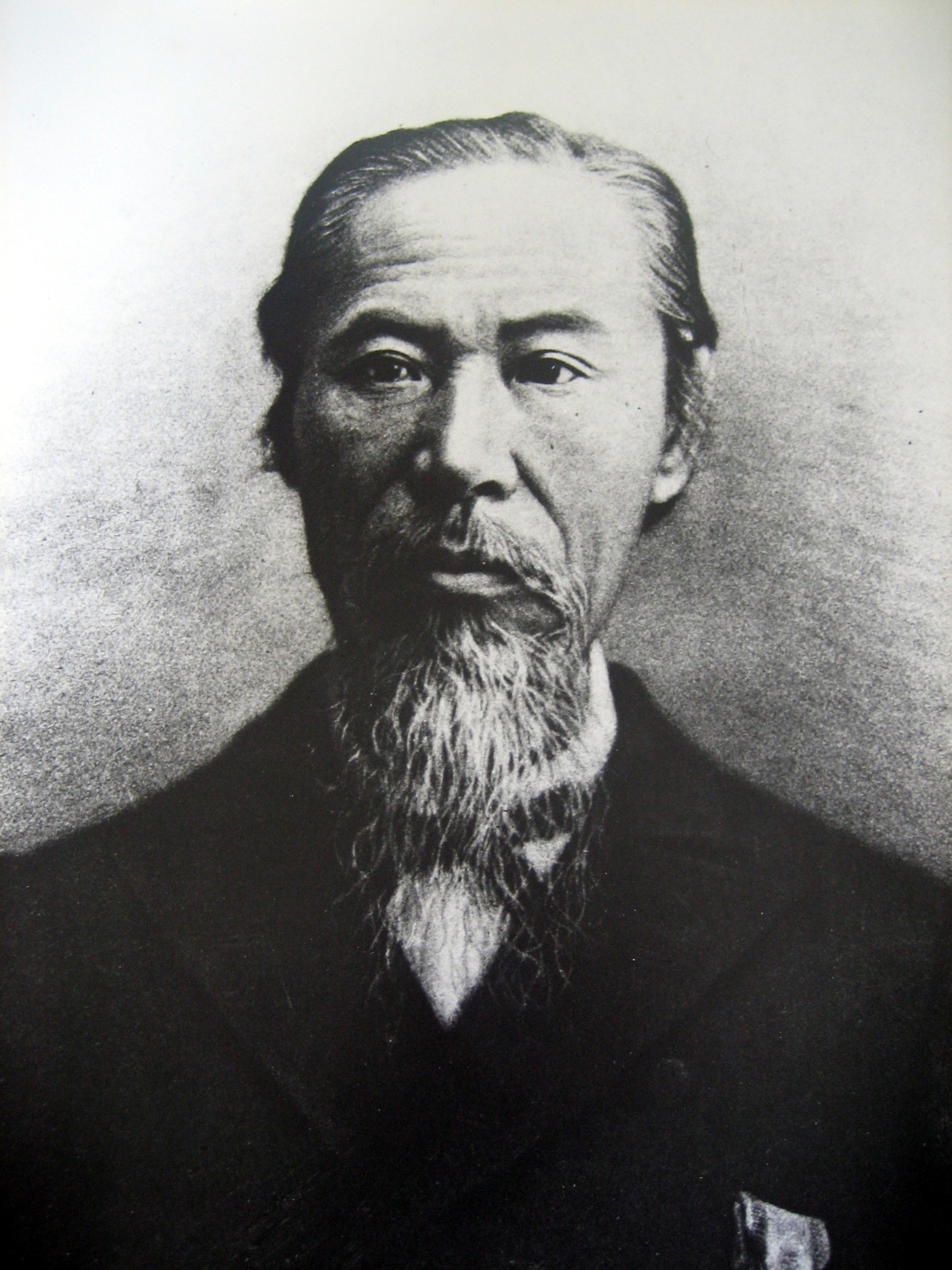 Size of an original photograph:(385×535mm） An enlargement from a negative.（The holder and whereabouts of same are unknown.）